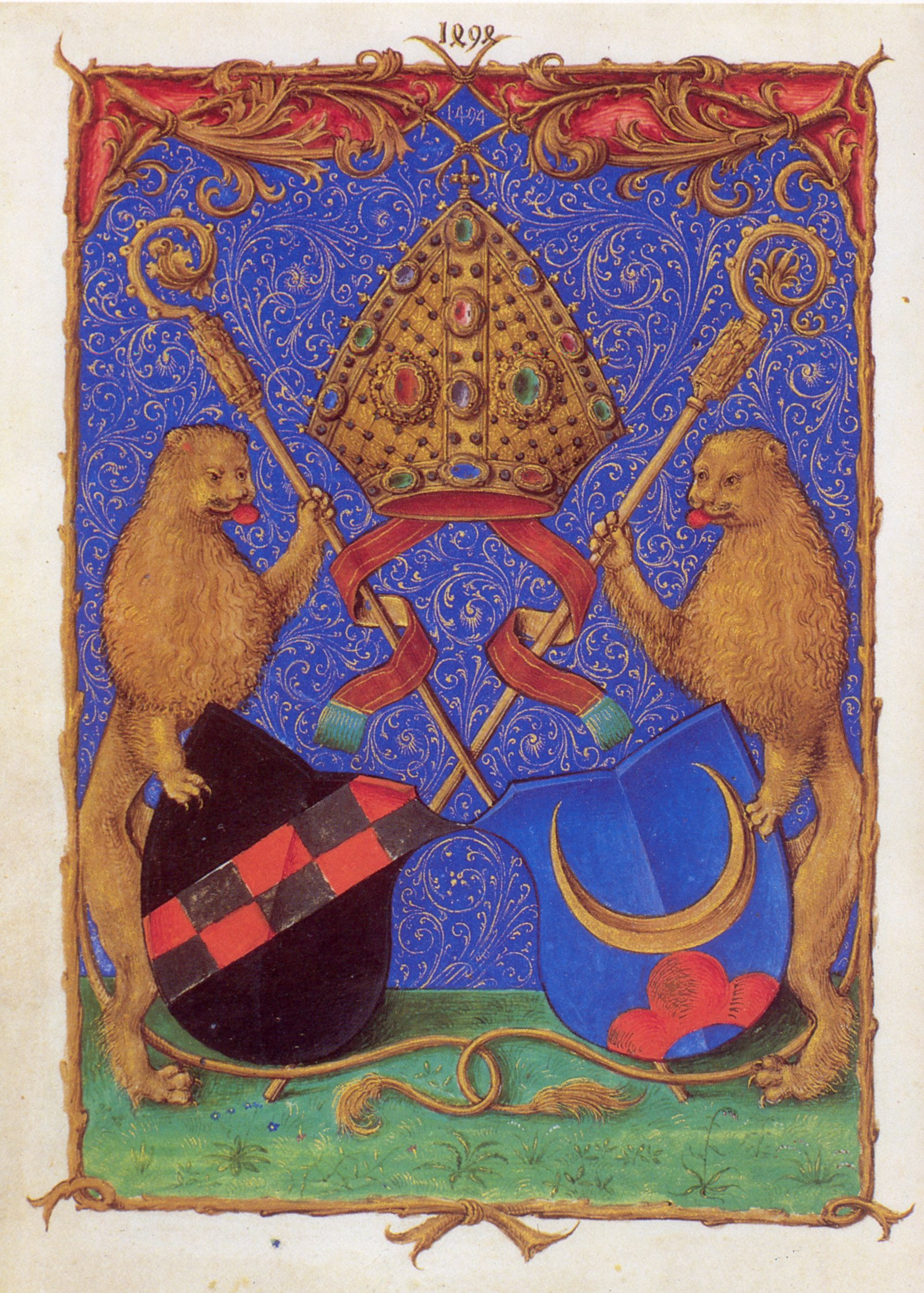 Coats of Arms of St. Bernard of Clairvaux (left), Johannes I. Stantenat of Salem (right)